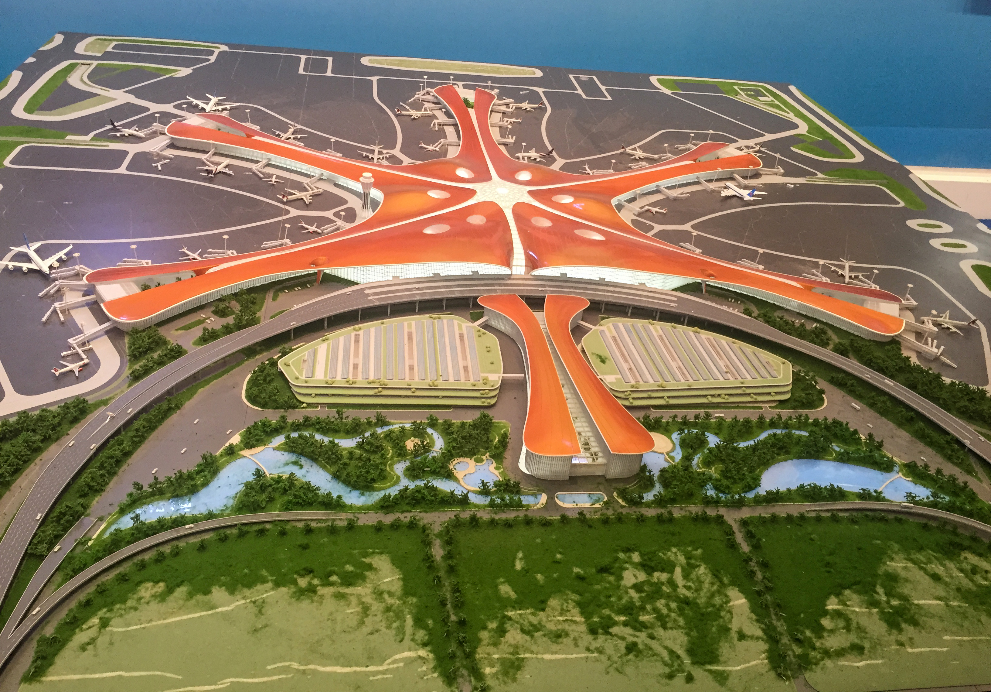 Official name to be announced. Now the actual structure is out there...Remarks: The official name "Beijing Daxing International Airport" has been confirmed on 14 September 2018, the ICAO code ZBAD was announced in November 2018, and the IATA code PKX was announced on 6 March 2019.